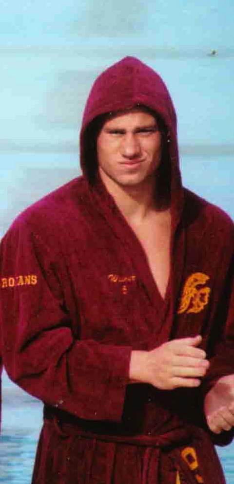 Robert Weiner USC Polo Picture